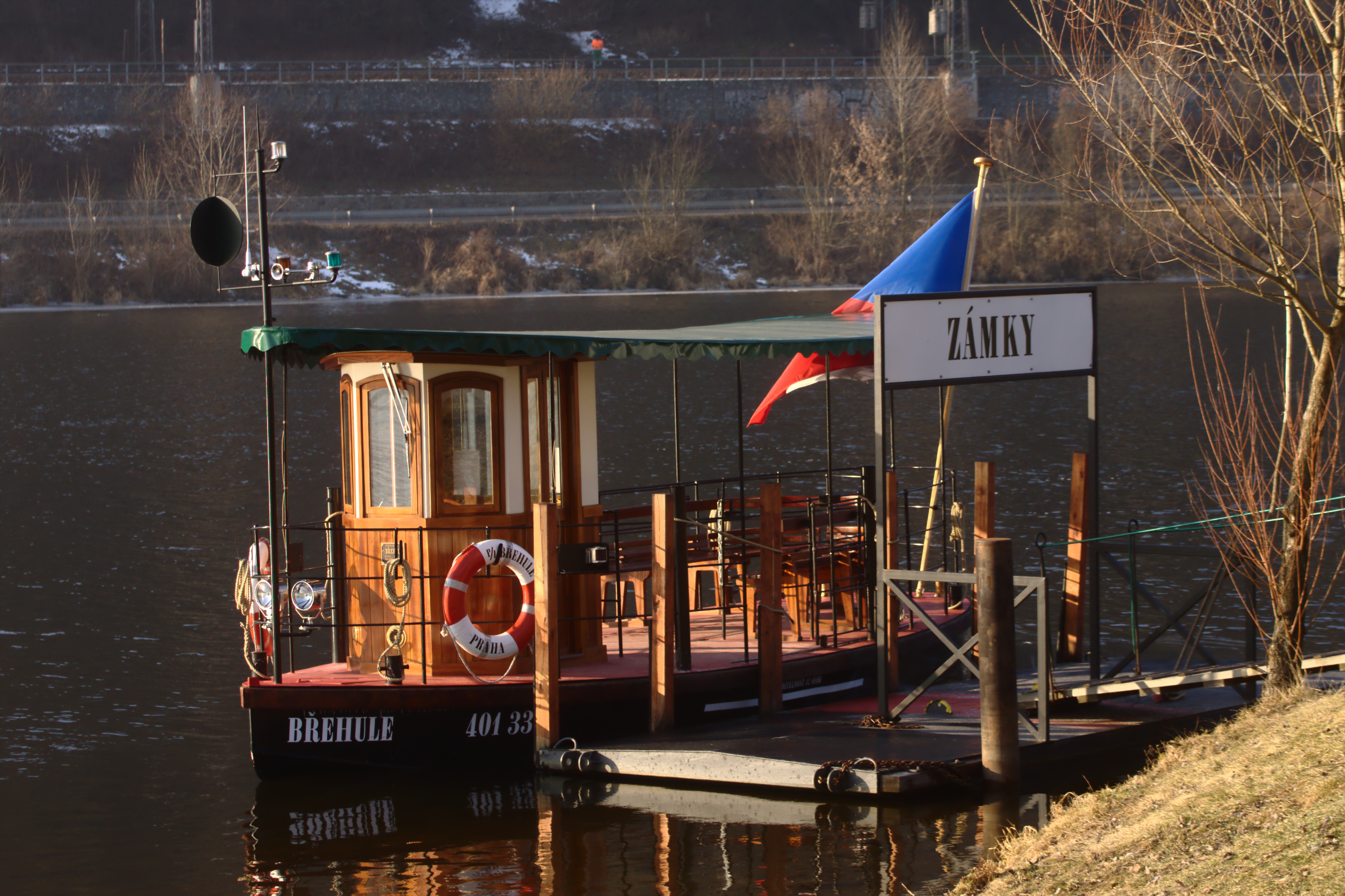 A boat at Zámky Pier, Prague, CZ